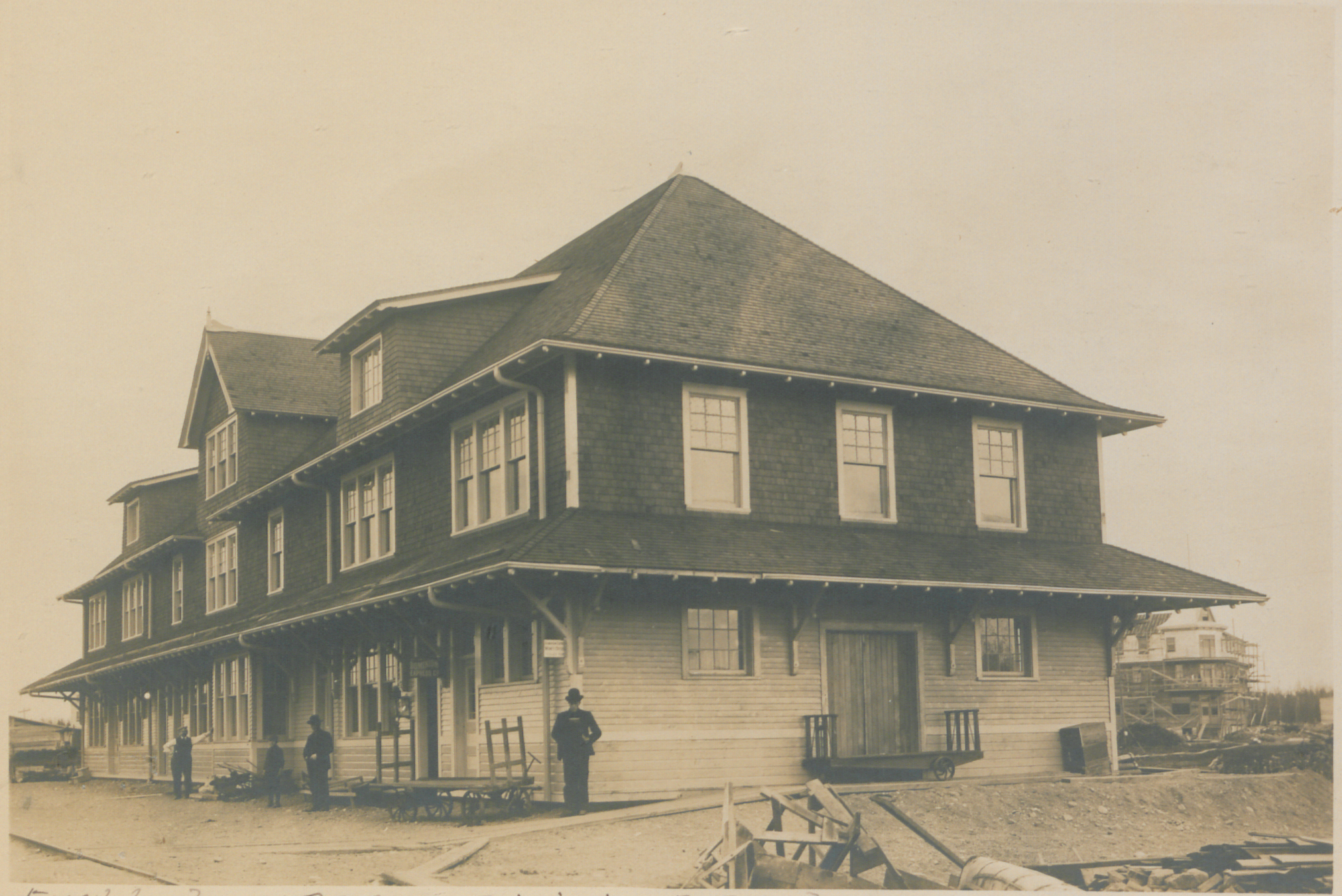 Englehart, T. & N. O. Divisional Depot.